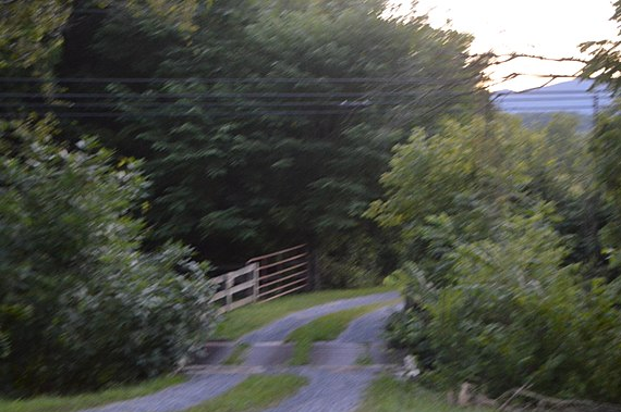 Entrance to the driveway for the Wiloma estate, located off U.S. Route 220 north of Fincastle in Botetourt County, Virginia, United States. The property is listed on the National Register of Historic Places.